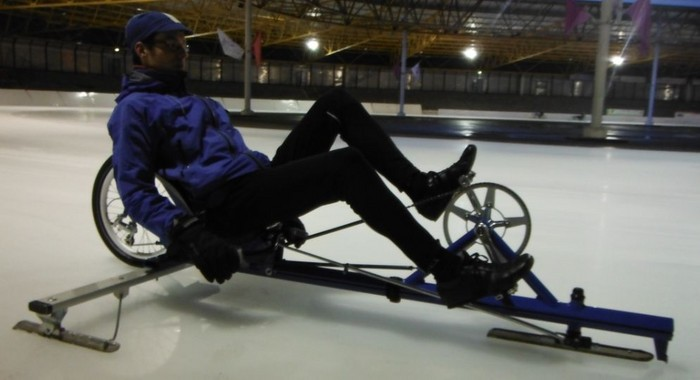 Standard icetrack bike with drive wheel at the back, steering skate at the front and cornering skate out to the right.